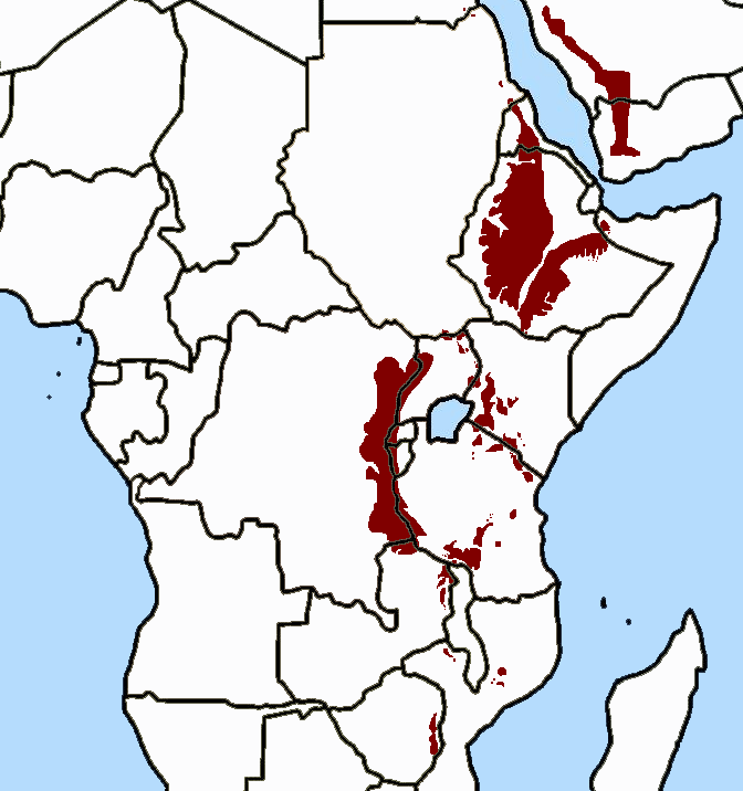 Eastern Afromontane map